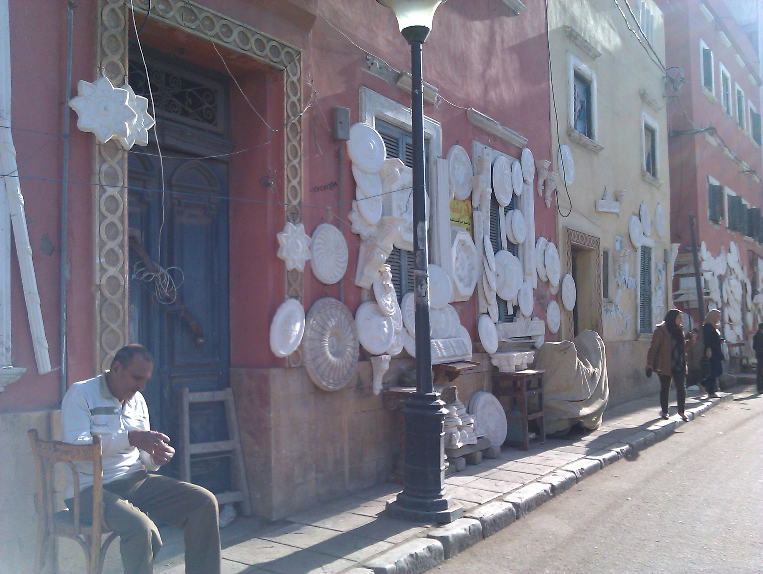 A street in Alexandria, Cairo just outside Pompei's Pillar.